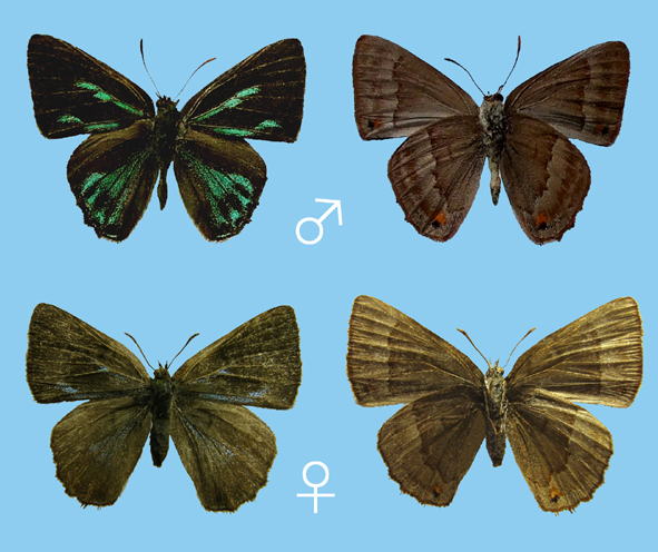 Deramas ikedai, male and female